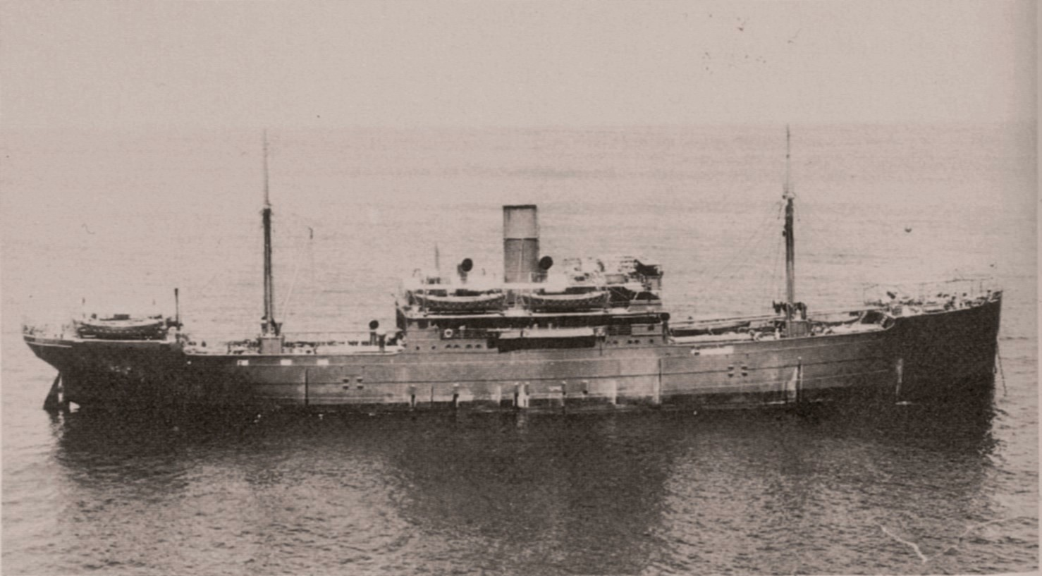 Starboard side view of the merchant vessel Yunnan before she was requistioned by the RAN on 22 June 1942 for service as an ammunition stores issuin ship. HMAS Yunnan (ship, 1934)